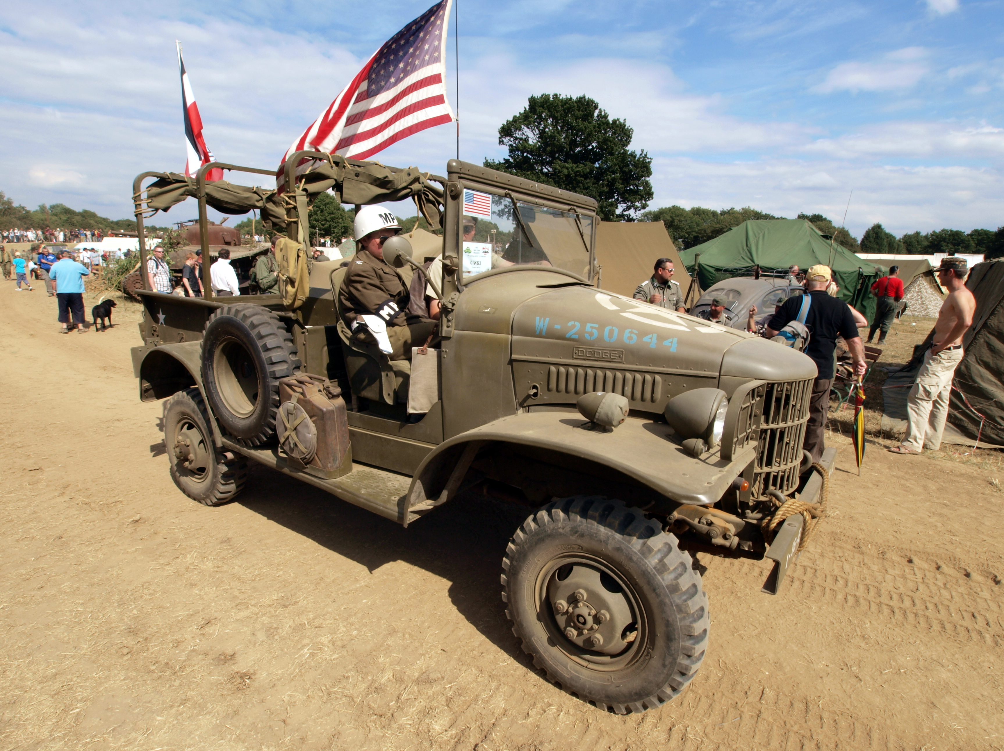 Dodge 1/2 ton WC-21 Weapons Carrier, W-250644 U.S. Ordnance Department Administrative and Tactical Vehicles per QMC Contract.nr, 1940 through 1 January 1944 (Dodge T-215) identify registration nr. 250644 as a T-215 Weapon Carrier wo/winch — meaning a WC-21.